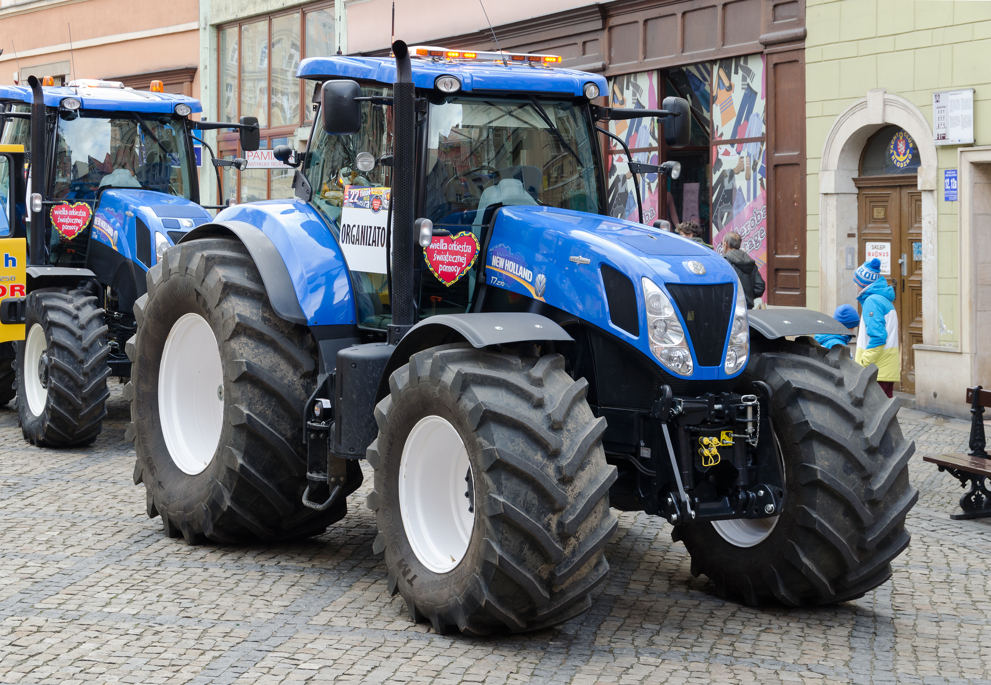 Tractor New Holland T7.270